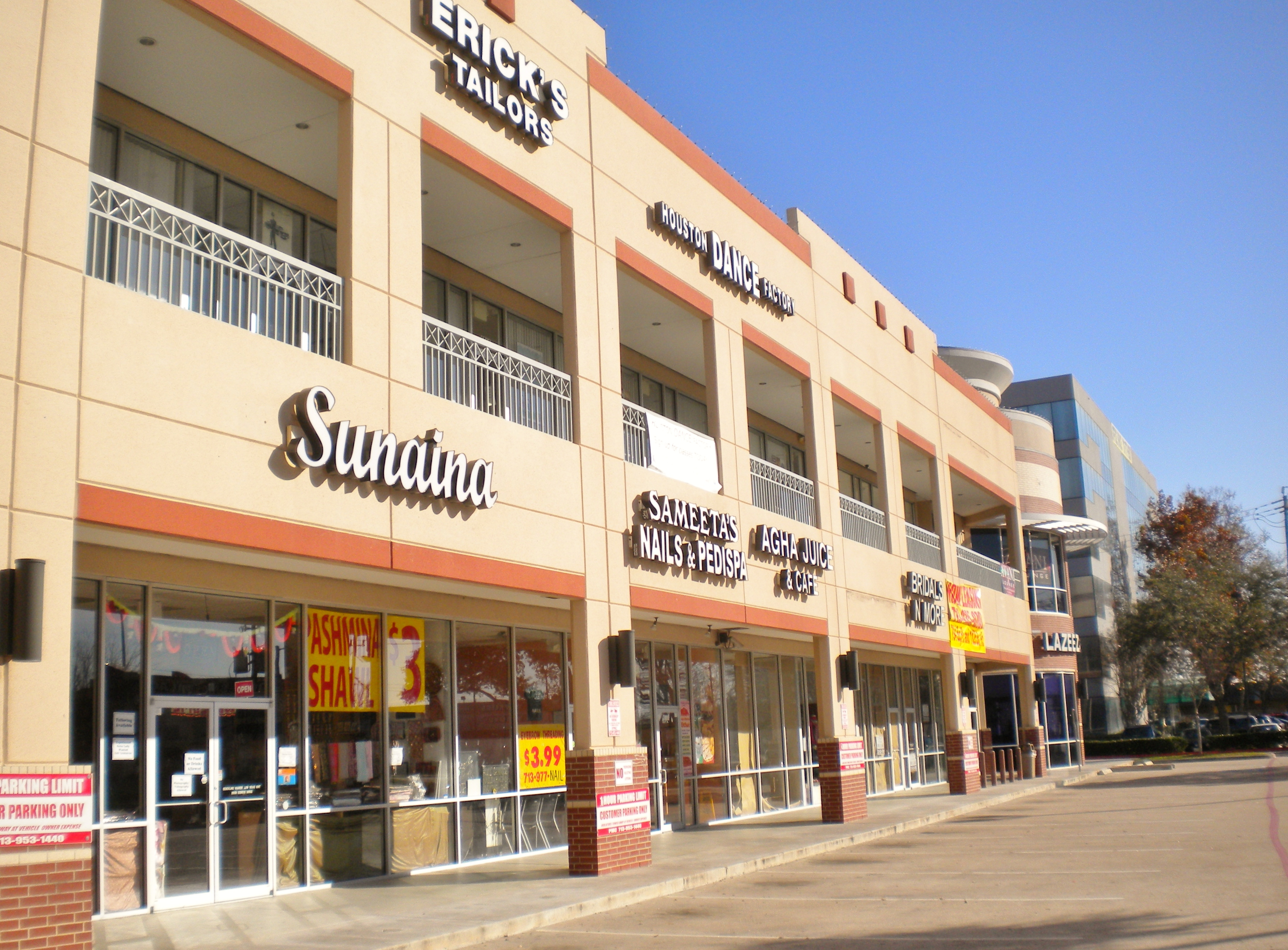 The Plaza @ Hillcroft & Hawrin 5711 Hillcroft St. Houston, TX 77036